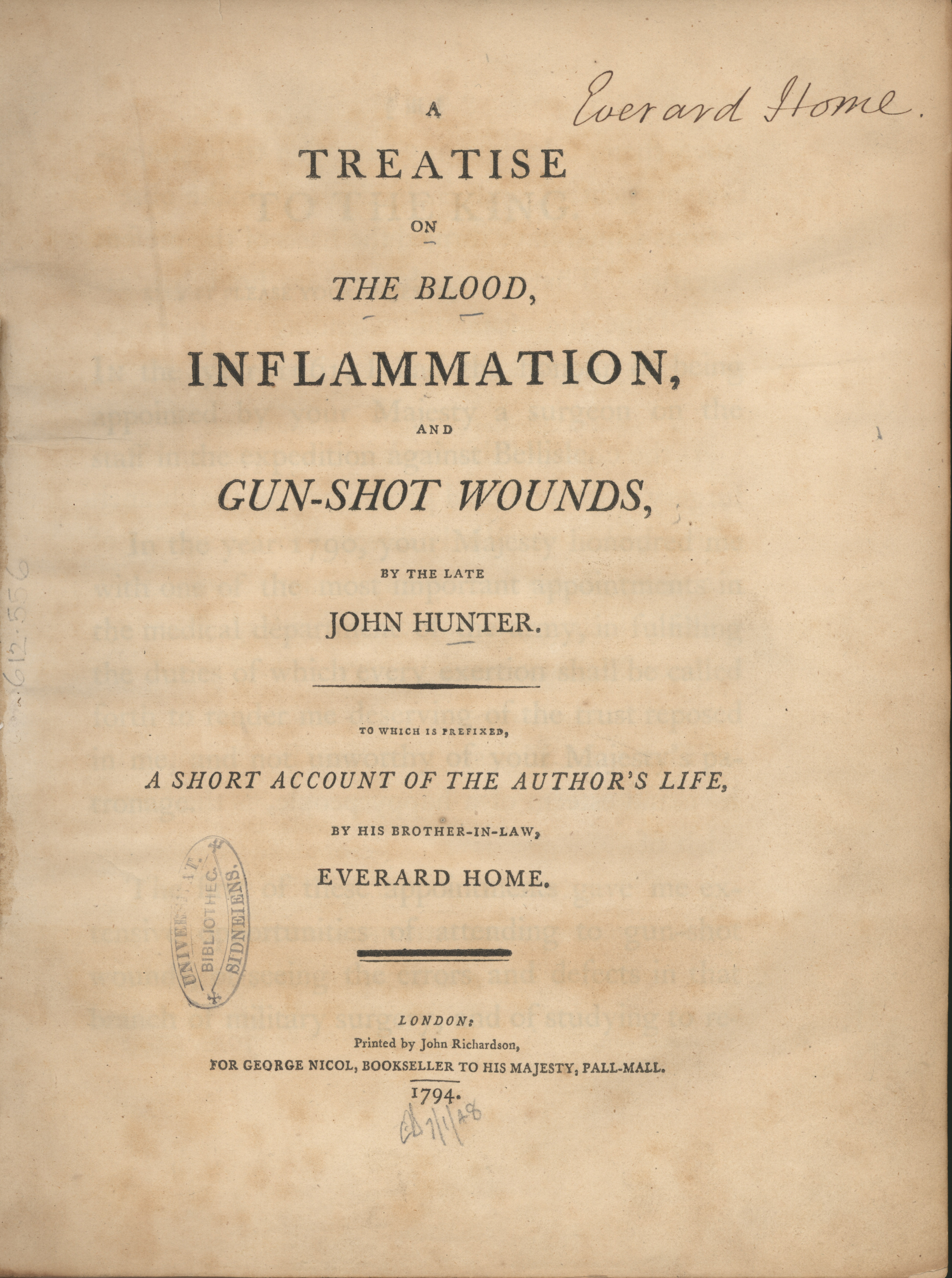 Title page of A Treatise on the Blood, Inflammation and Gun-shot Wounds, by the Late John Hunter, London 1794.